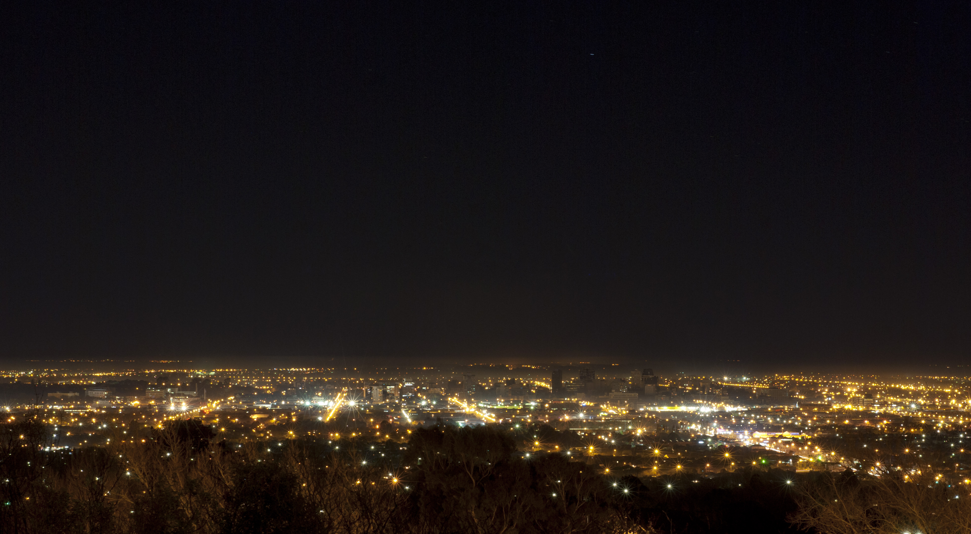 Christchurch at night